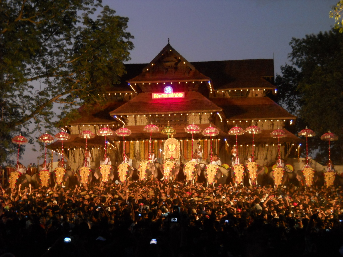 This media file is uploaded with Malayalam loves Wikimedia event - 2. പൂരക്കാഴ്ചകള്‍, തൃശ്ശൂര്‍ പൂരം 2011